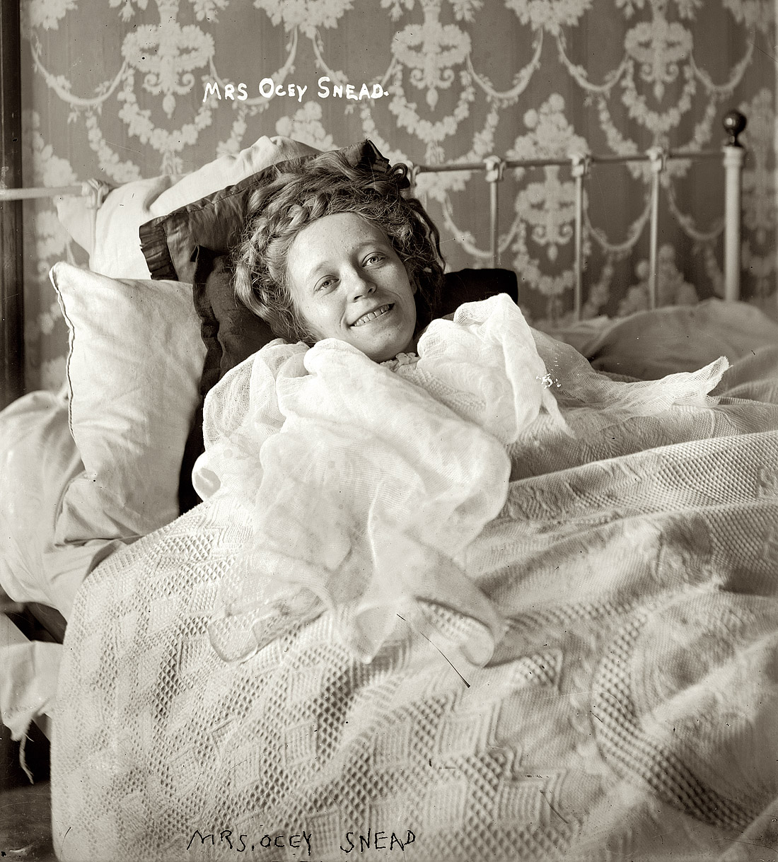 Ocey Snead on December 21, 1907. Image from the George Grantham Bain collection of glass negatives.